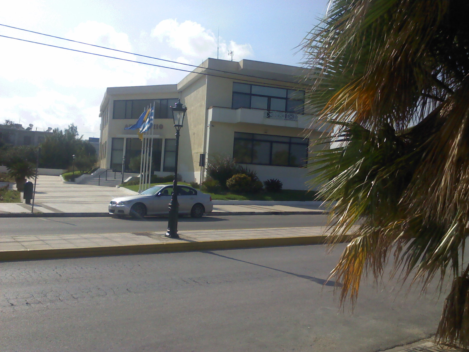 Ministry Rafina